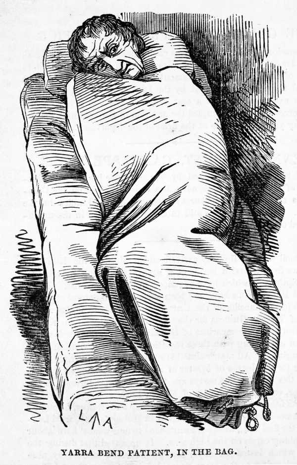 'Yarra Bend patient, in the bag', Wood engraving published in The illustrated Melbourne post